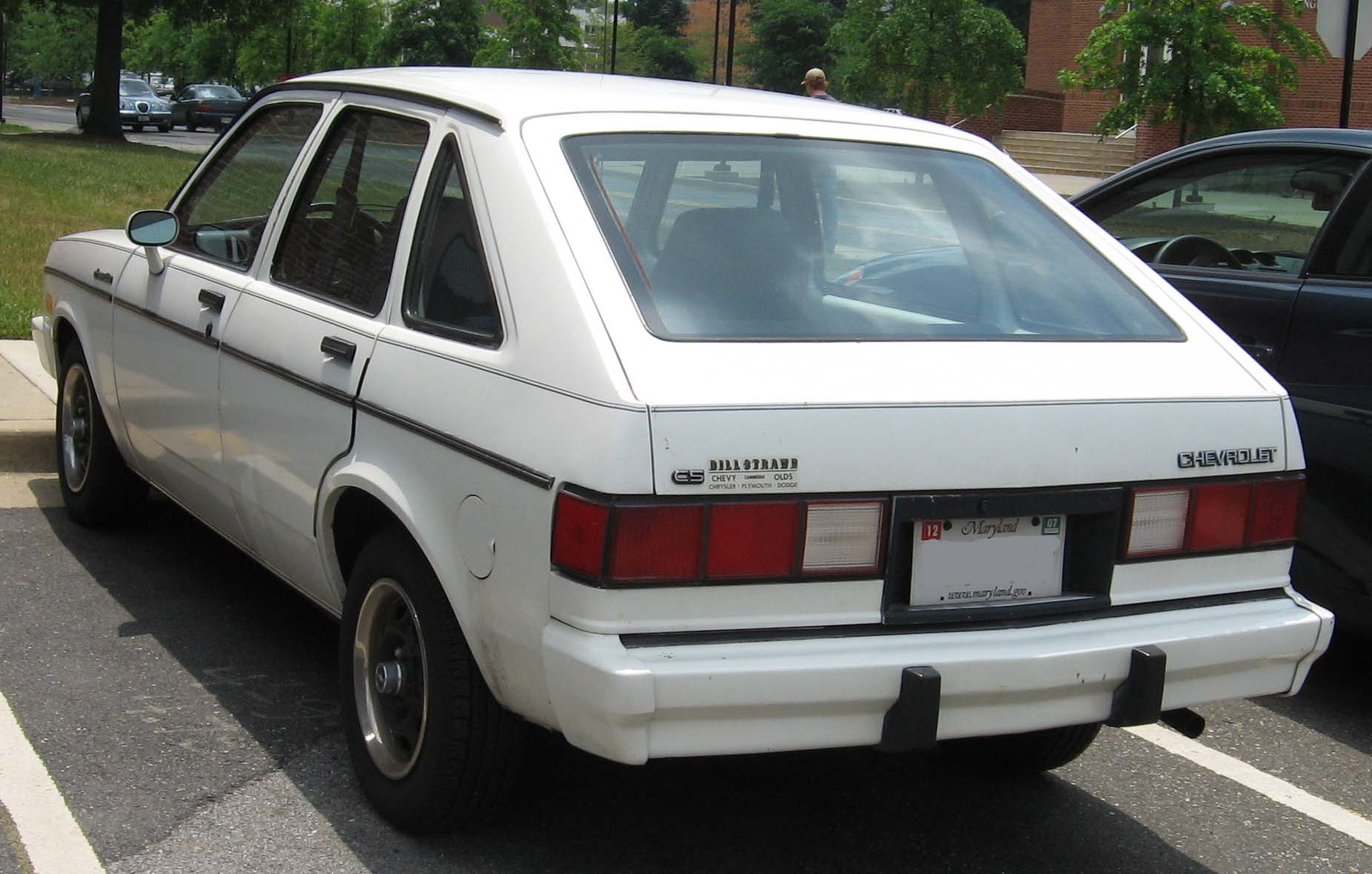 1983-1985 Chevrolet Chevette photographed in USA.